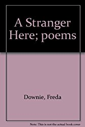 poems of Freda downie